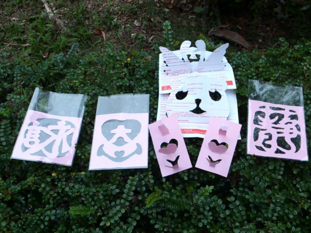 paper-tearing work shows different Chinese characters